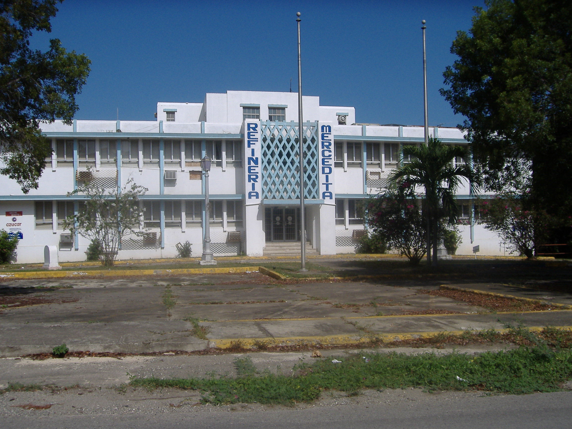 The old Mercedita Sugar Refinery headquarters in Ponce, Puerto Rico